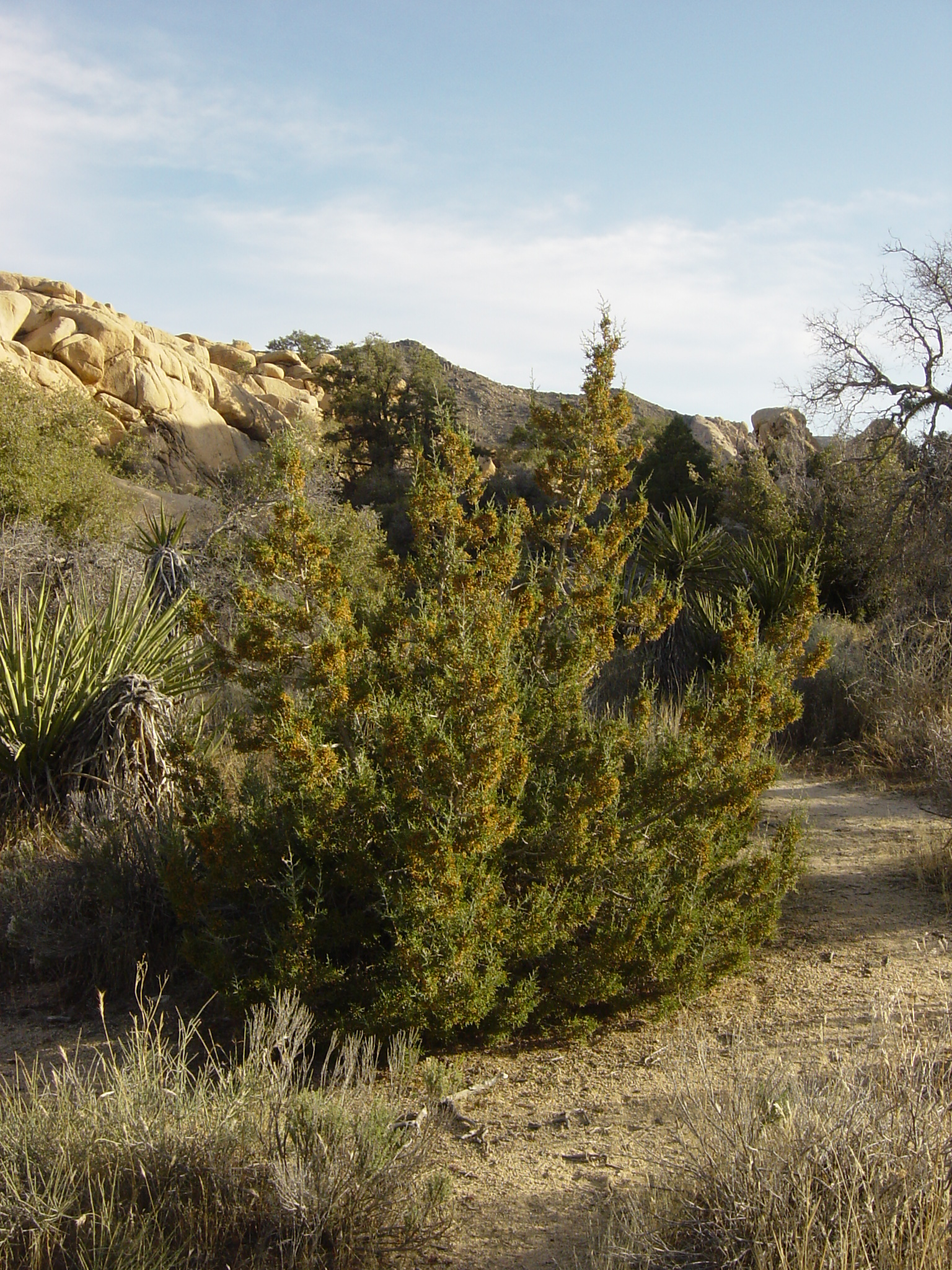 California juniper in Joshua Tree National Park, California